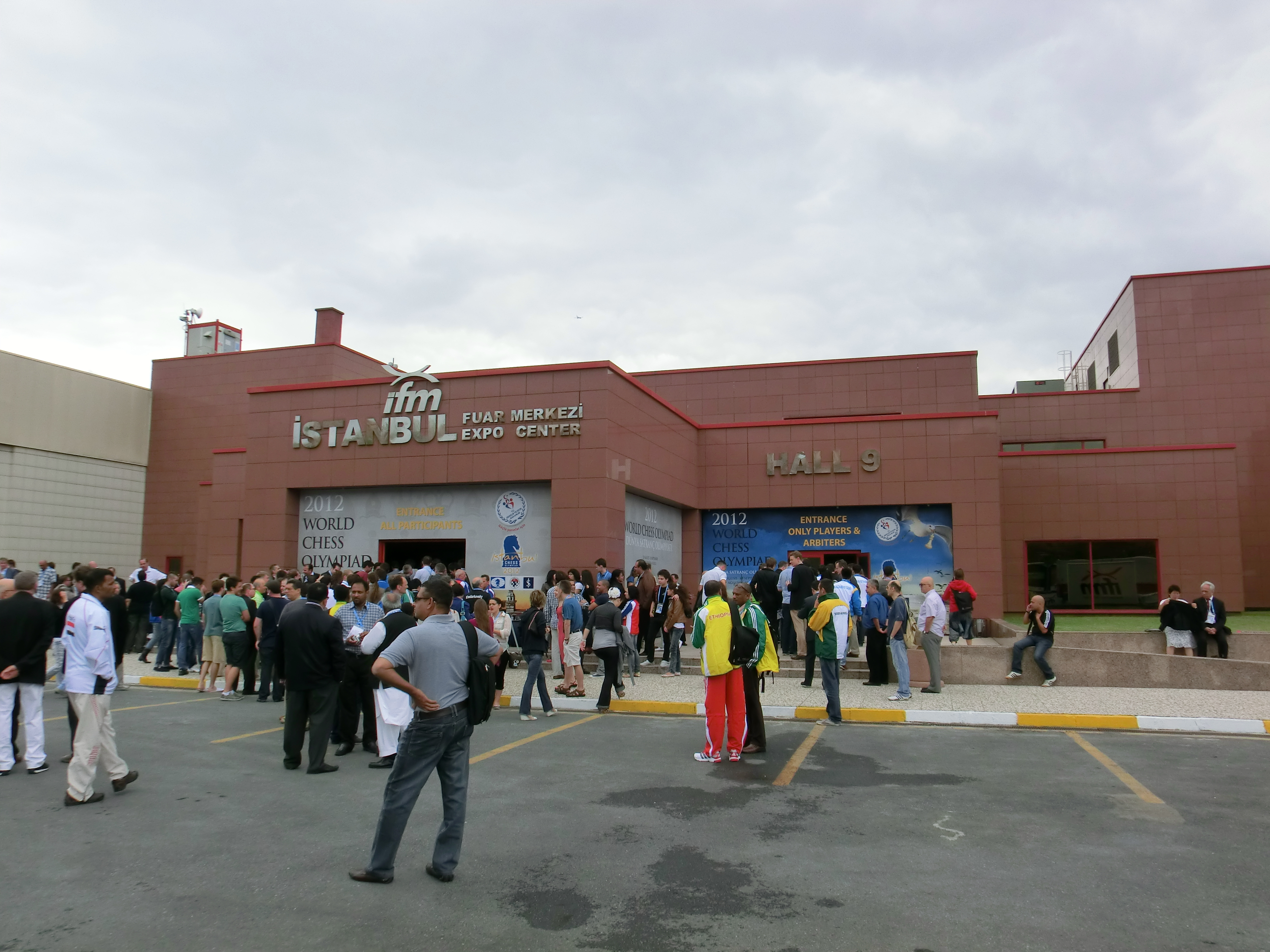 Chess Olympiad 2012 in Istanbul, Visitor entrance